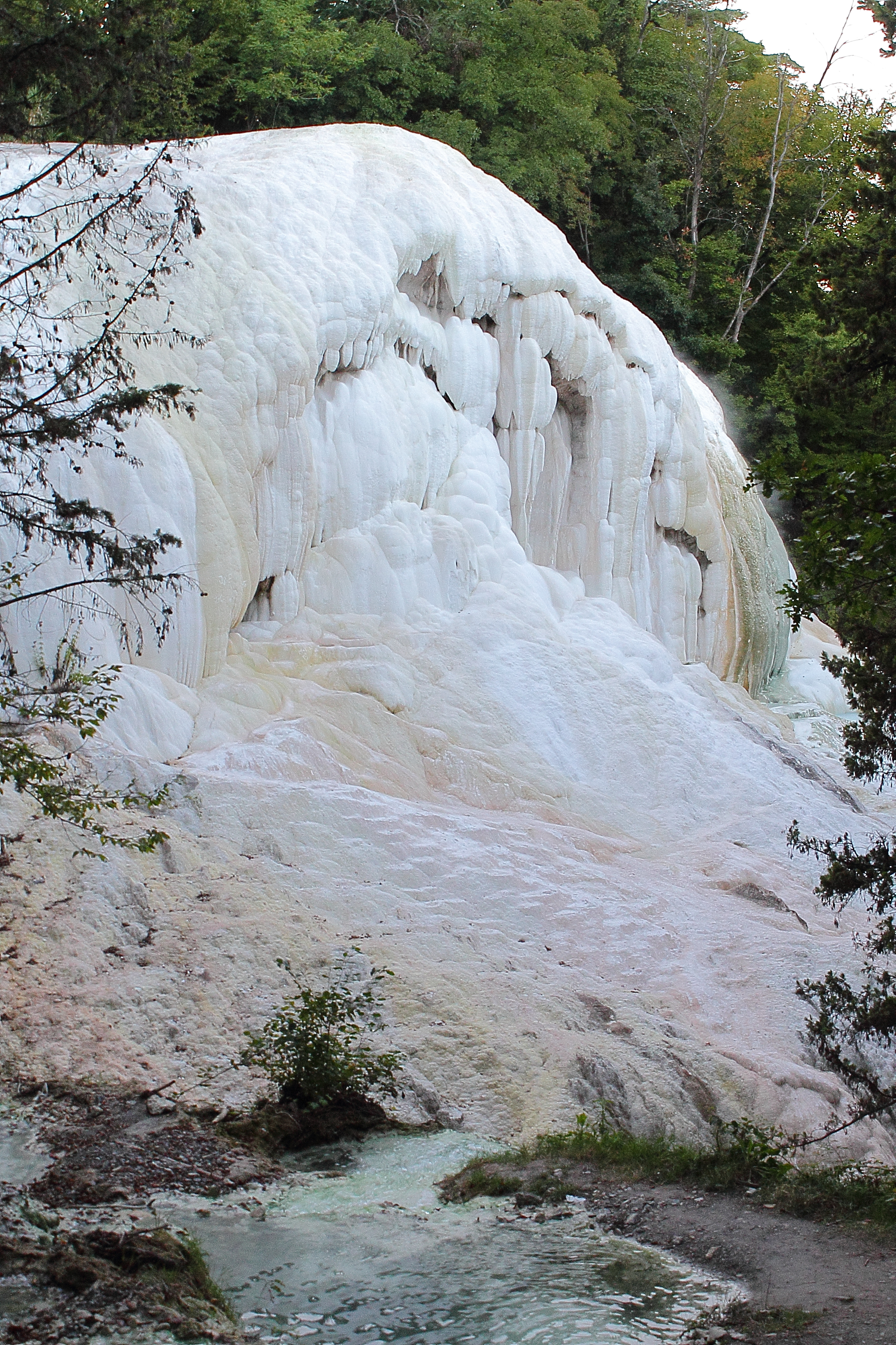 Terme Bagni San Filippo - Toscana - ITALY